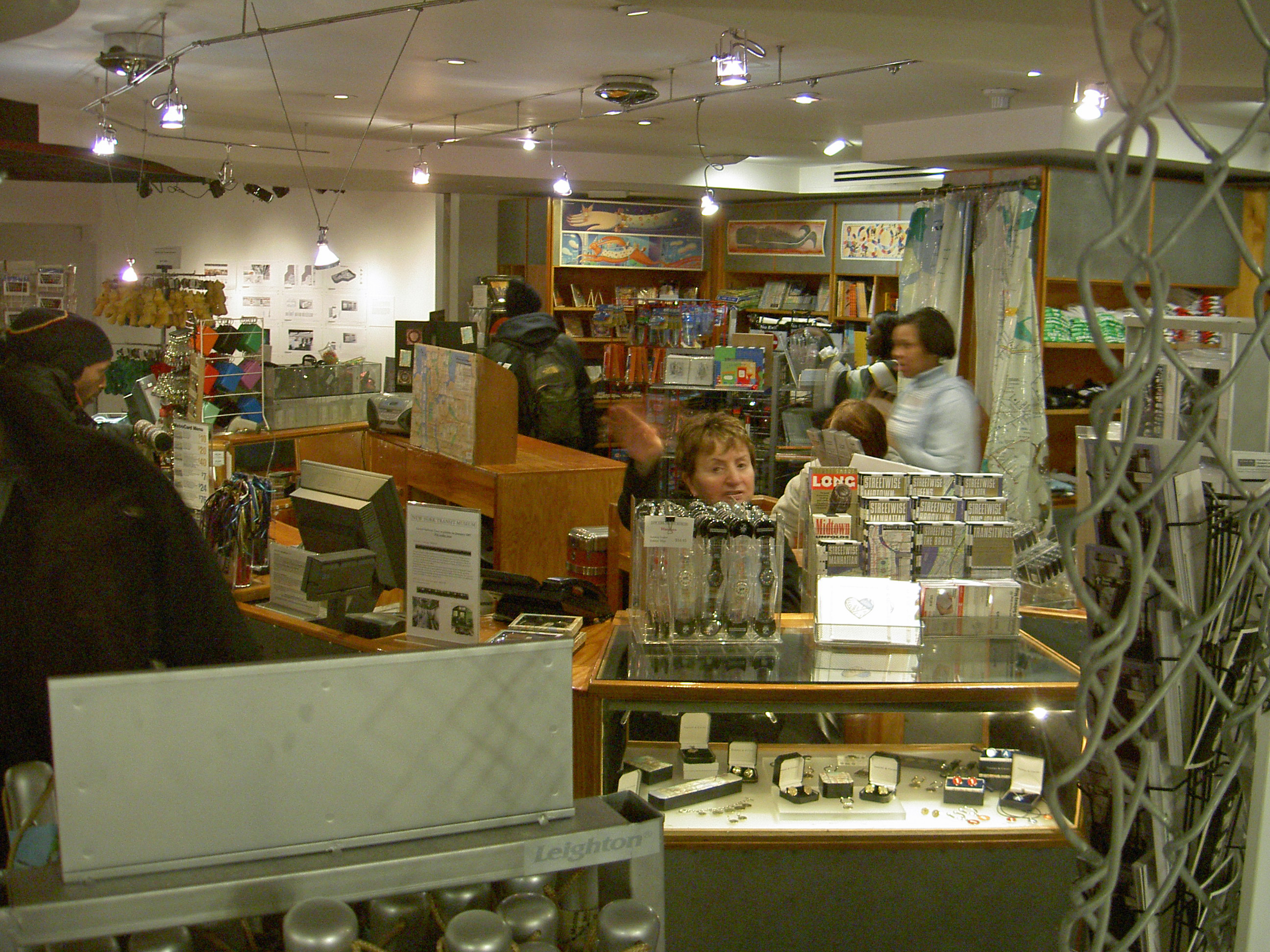 MTA Store in Grand Central by David Shankbone